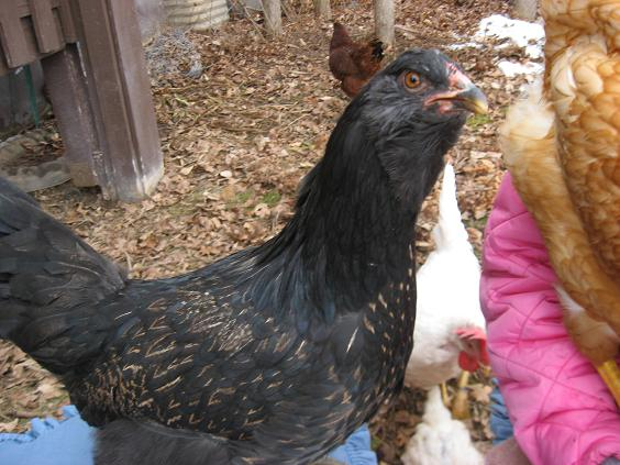 Black Easter Egger in the back yard looking for food (NOTE: this is not an Araucana or Ameraucana)